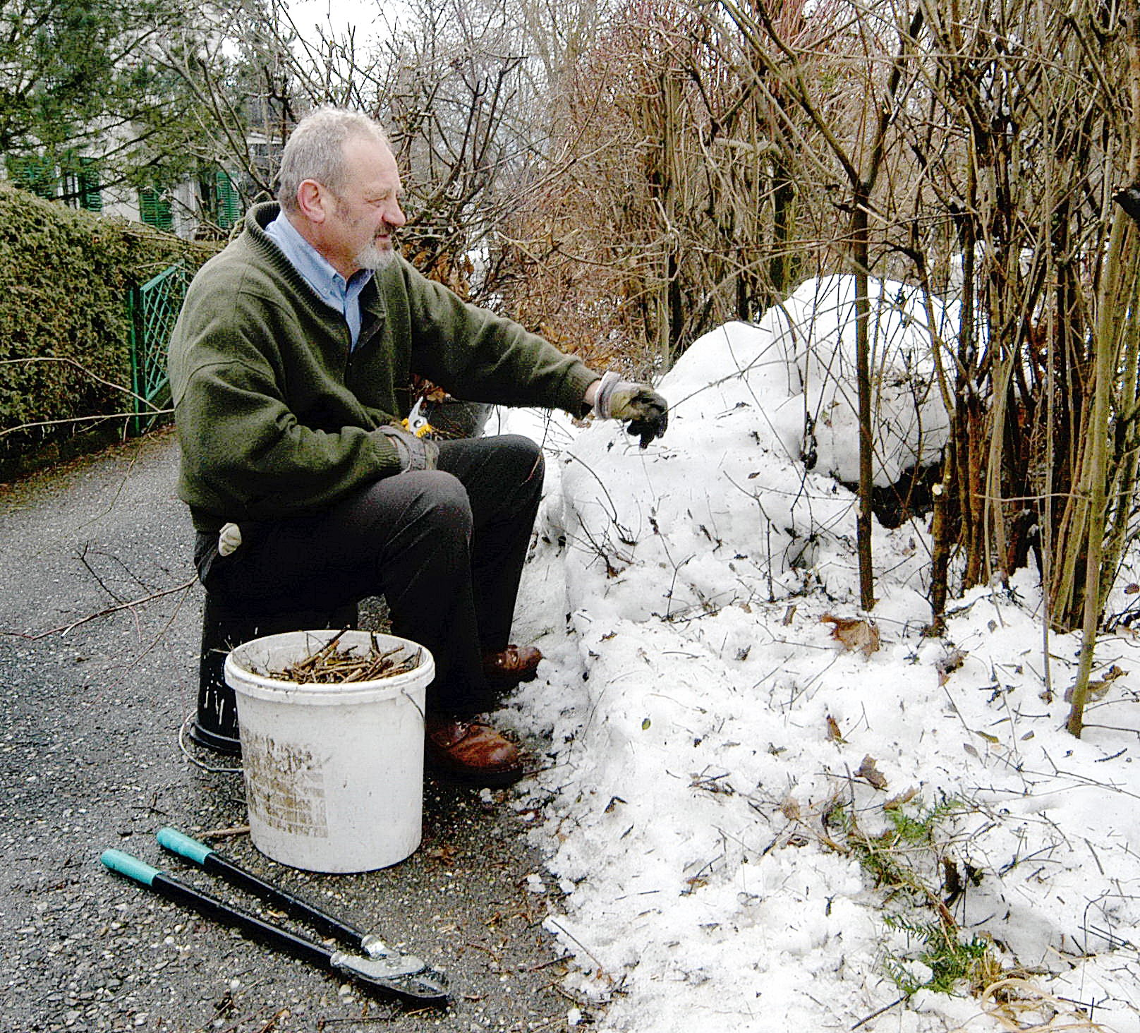 Ewald Friesacher doing gardening work (Poertschach, Carinthia, Austria)